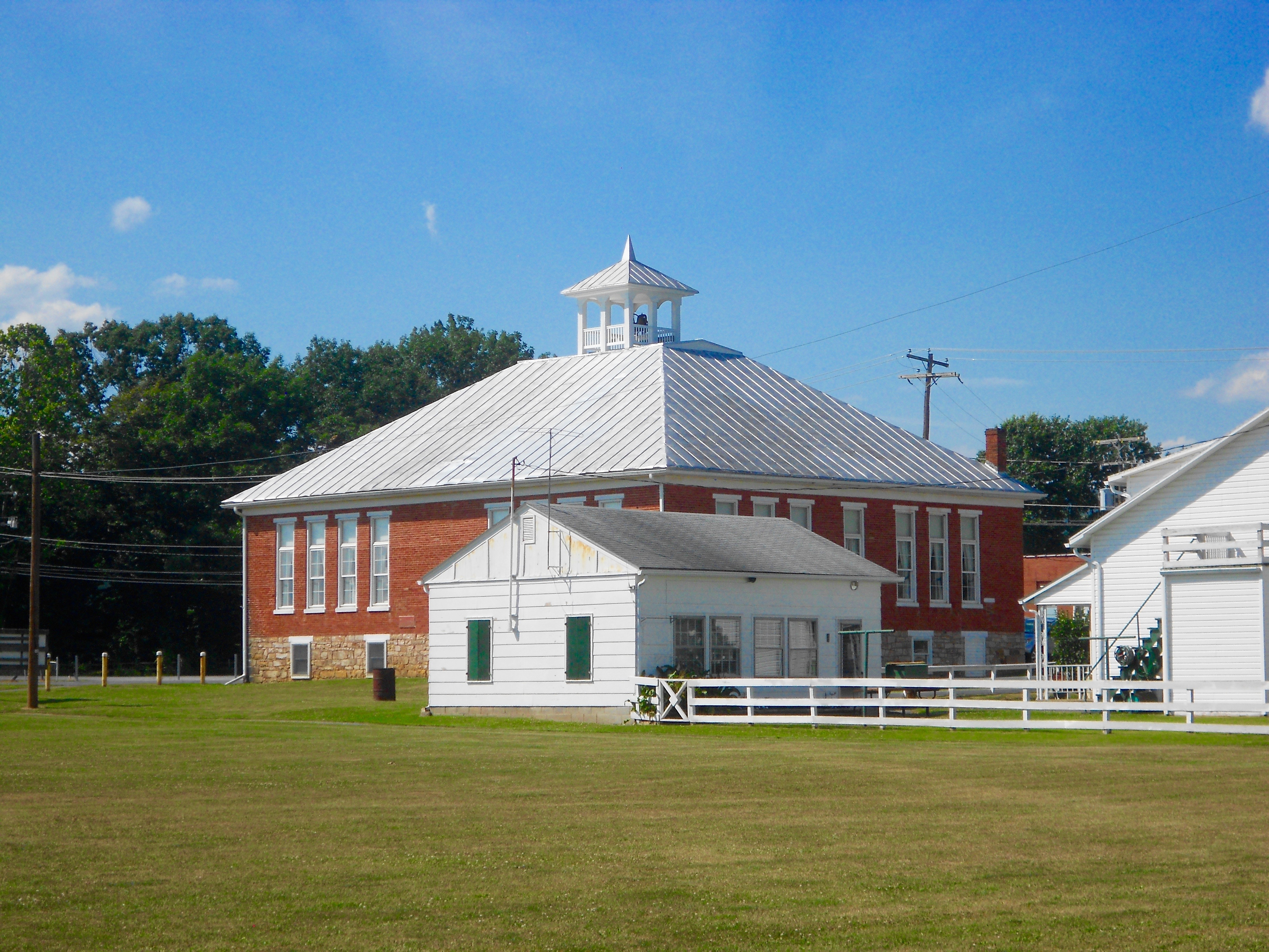 School in Macalisterville, Centre County, Pennsylvania